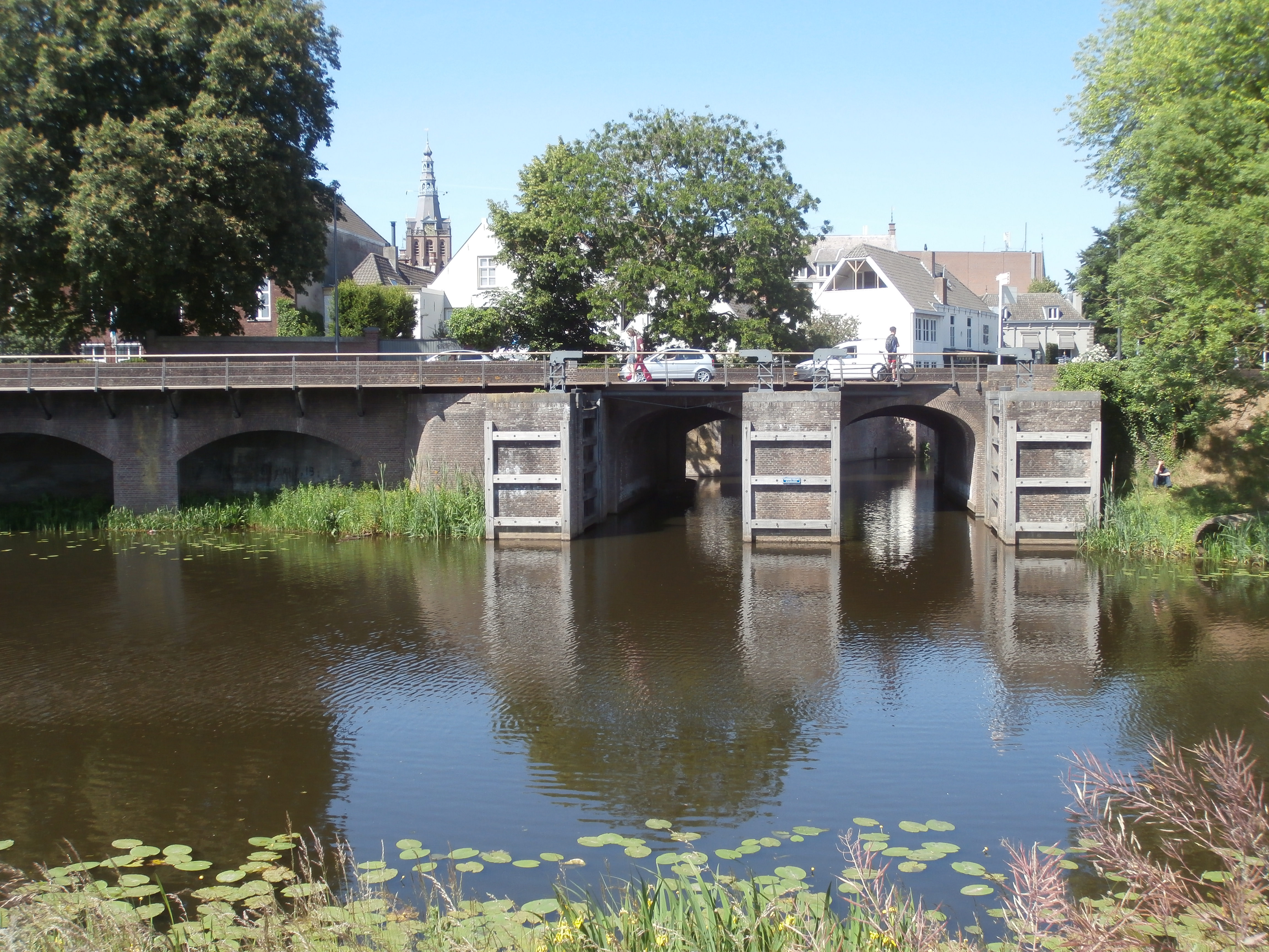 The Groote Hekel, a water gate and lock in 's-Hertogenbosch from the outside.